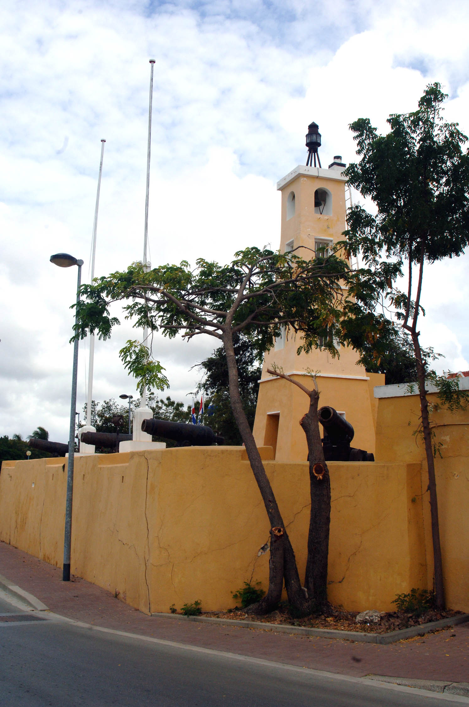 OLD FORT ORANJE AROUND WILHELMINA PLEIN IN KRALENDIYK - BUILT IN 1639